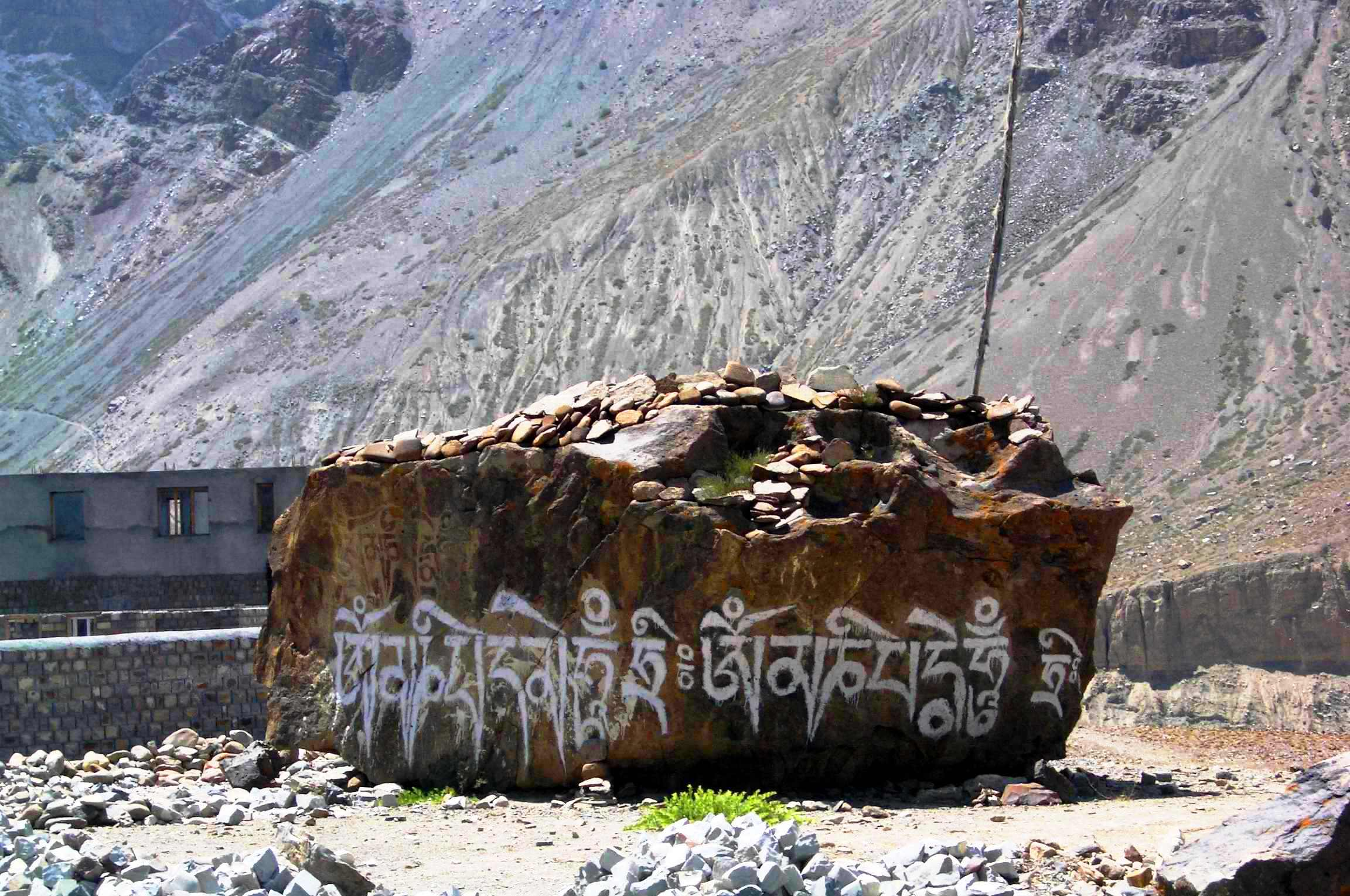 I took this photo on a trip to Spiti in 2004.